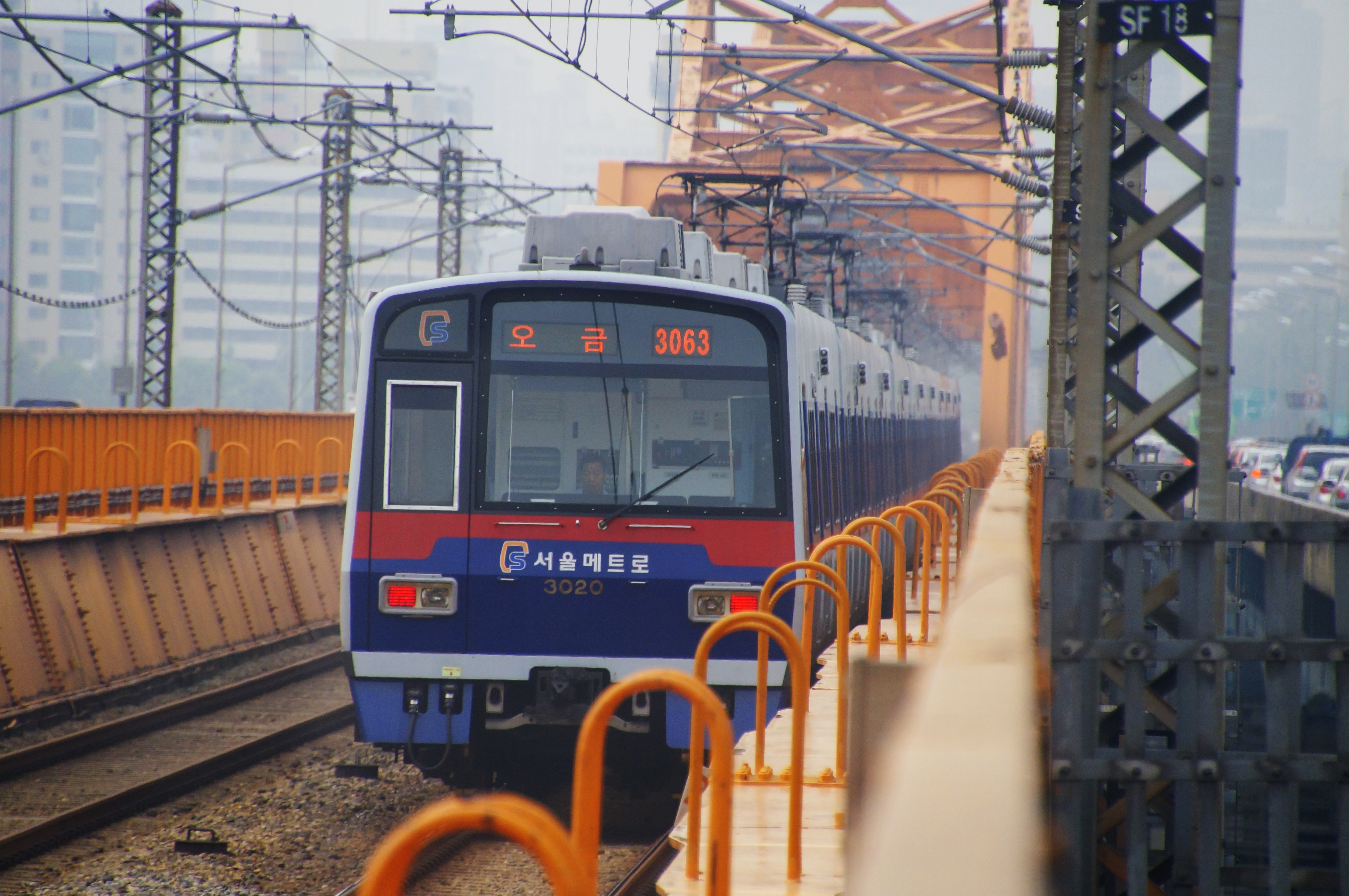 Ogeum-bound Seoul Metro Line 3 train of Daewoo Heavy Industries 3000-series (GEC Chopper controlled trainset 3x20) cars leaving Oksu.